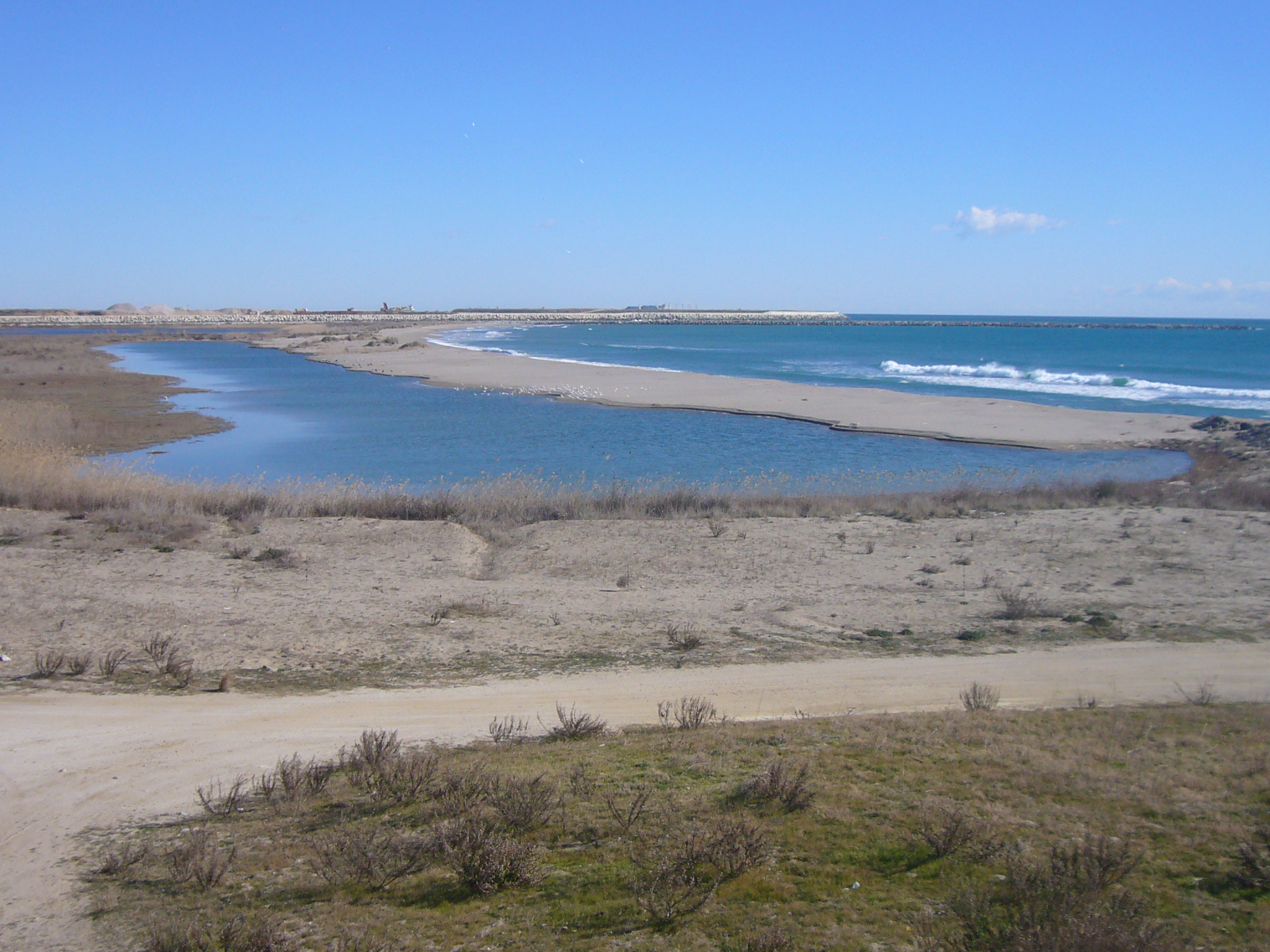 Natural reserve of the Llobregat Delta.